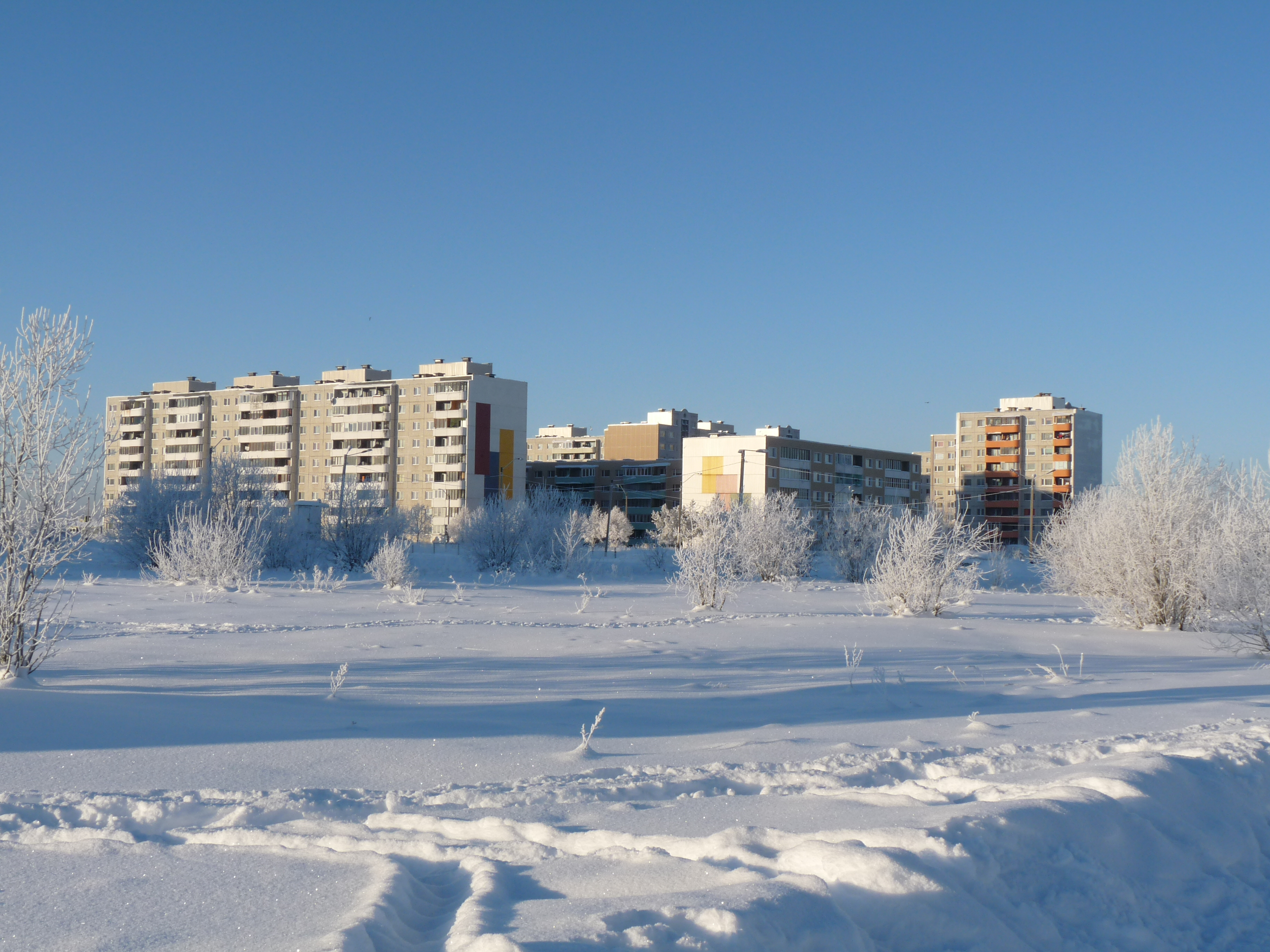 Läänemeri street in Tallinn